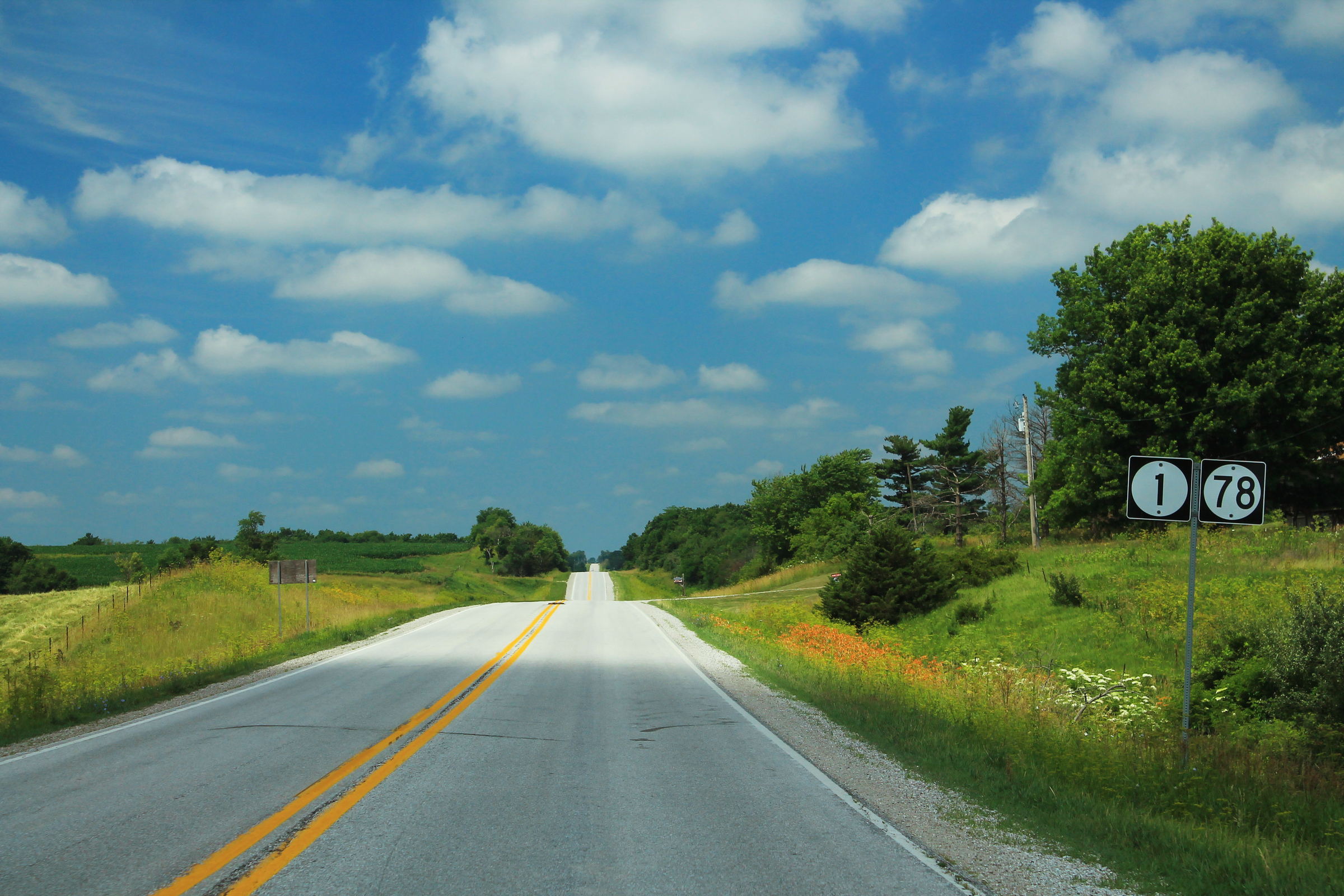 IA78 West IA1 South Signs - Iowa Countryside